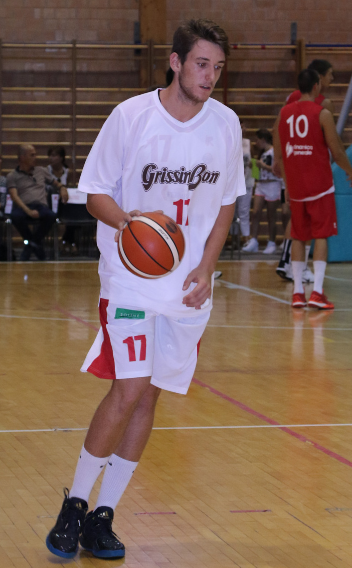 Alessandro Lever with Reggiana in September 2016